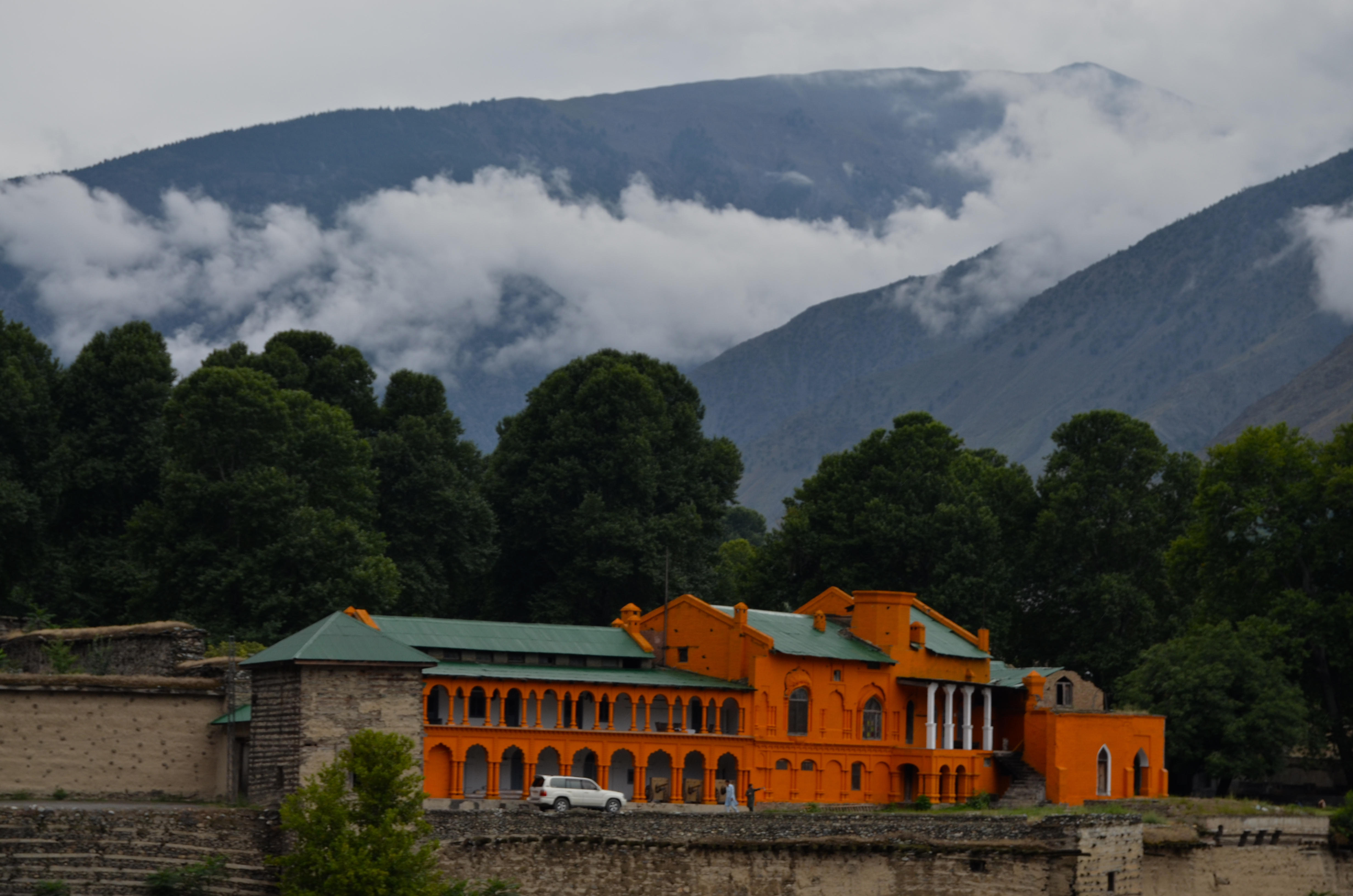 Shahi Fort Chitral KPK Pakistan This is a photo of a monument in Pakistan identified as the KPK-88